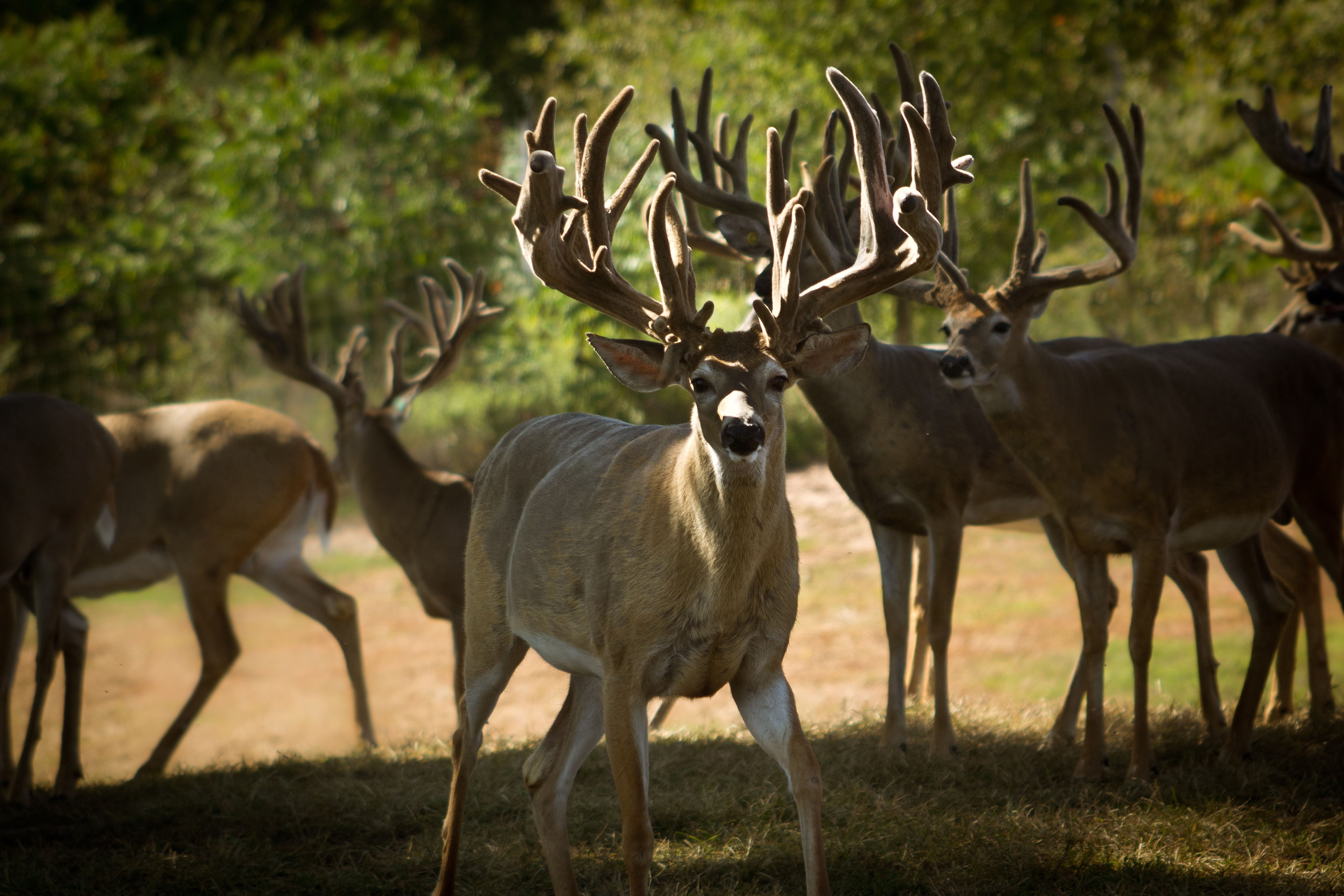 Whitehouse Whitetail Hunt